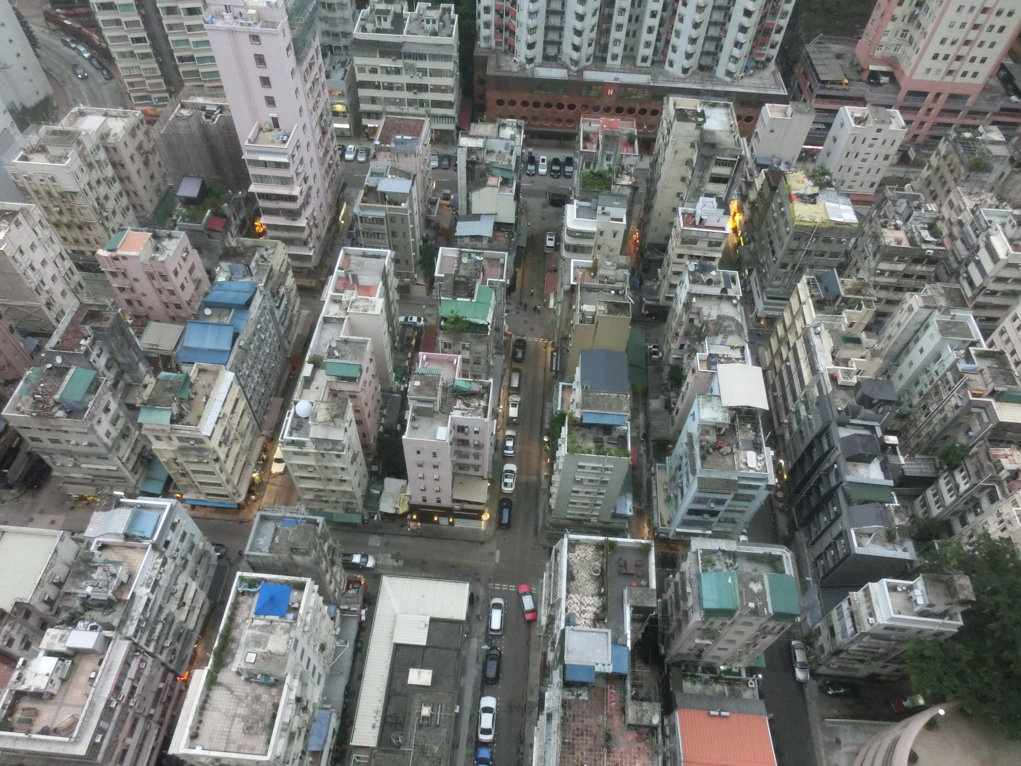 大坑 Tai Hang 尚巒 Warrenwoods FV view old zone Apr-2014